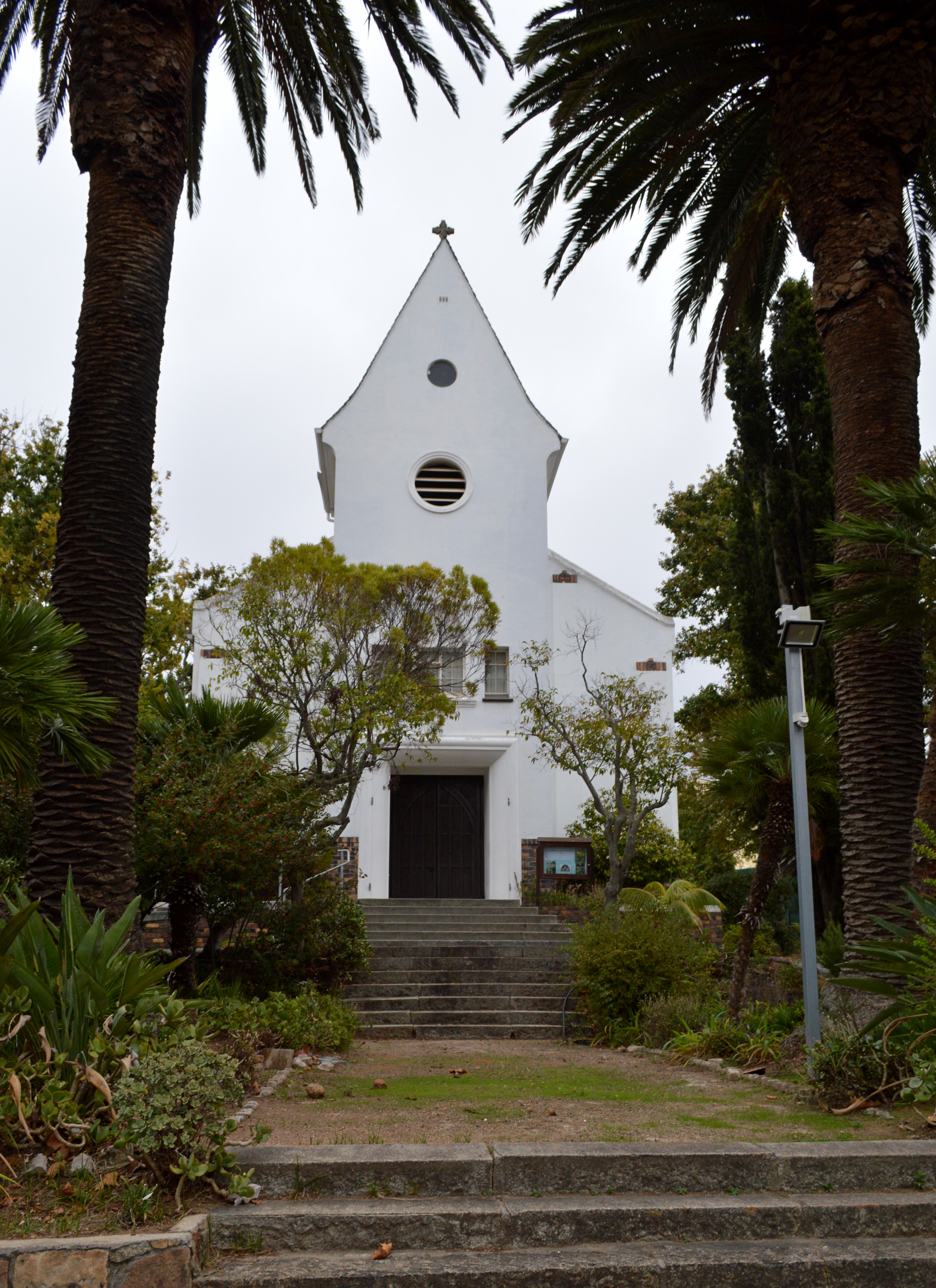 The St. Johannis Lutheran Church, Wynberg, Cape Town